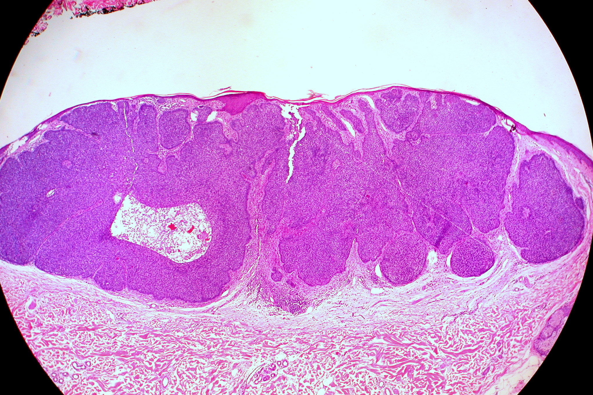 Basal Cell Carcinoma, Nodular Pattern Pathological and histological images courtesy of Ed Uthman at flickr.